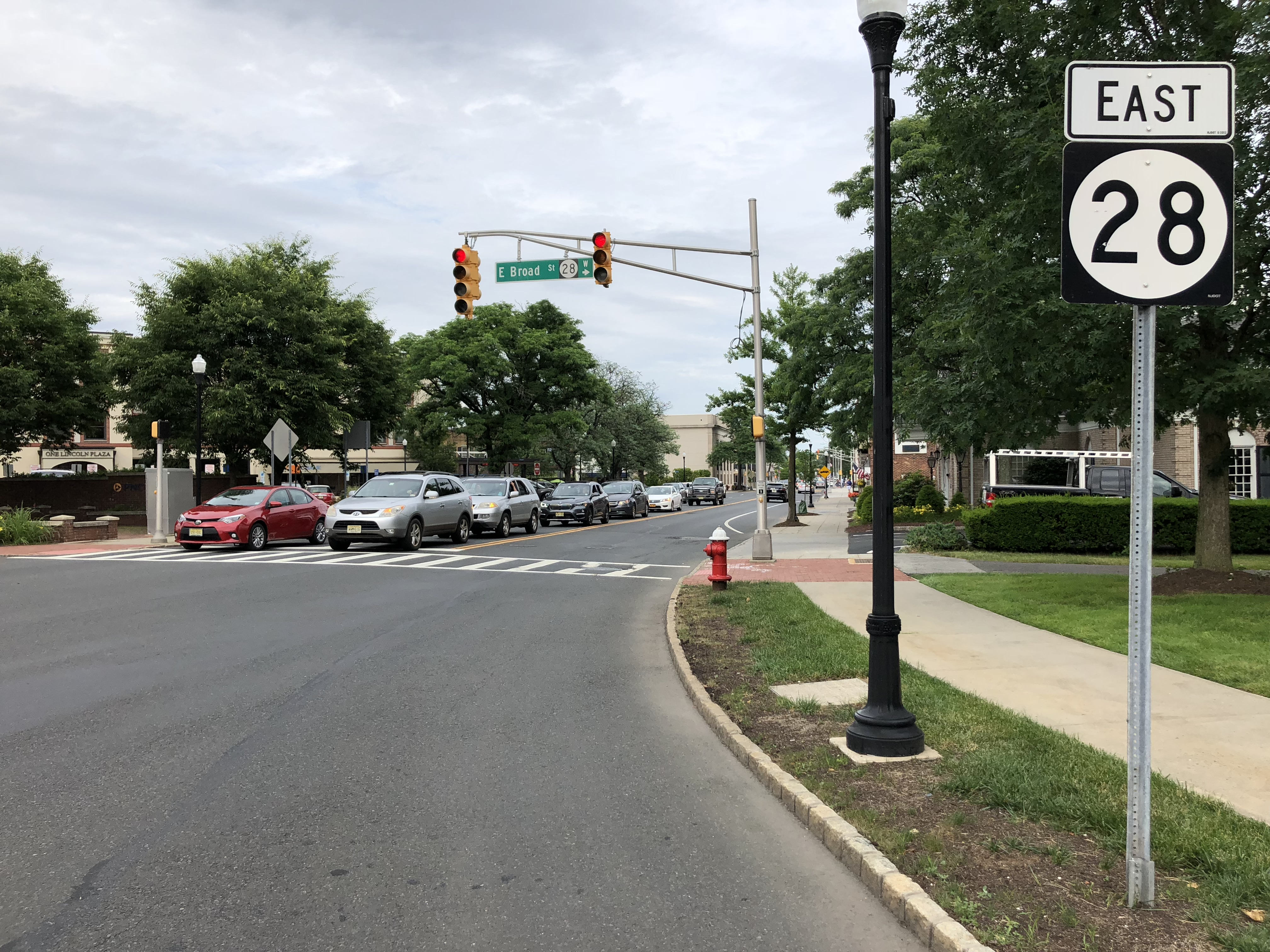 View east along New Jersey State Route 28 (North Avenue) at Union County Route 509 (Broad Street) in Westfield, Union County, New Jersey